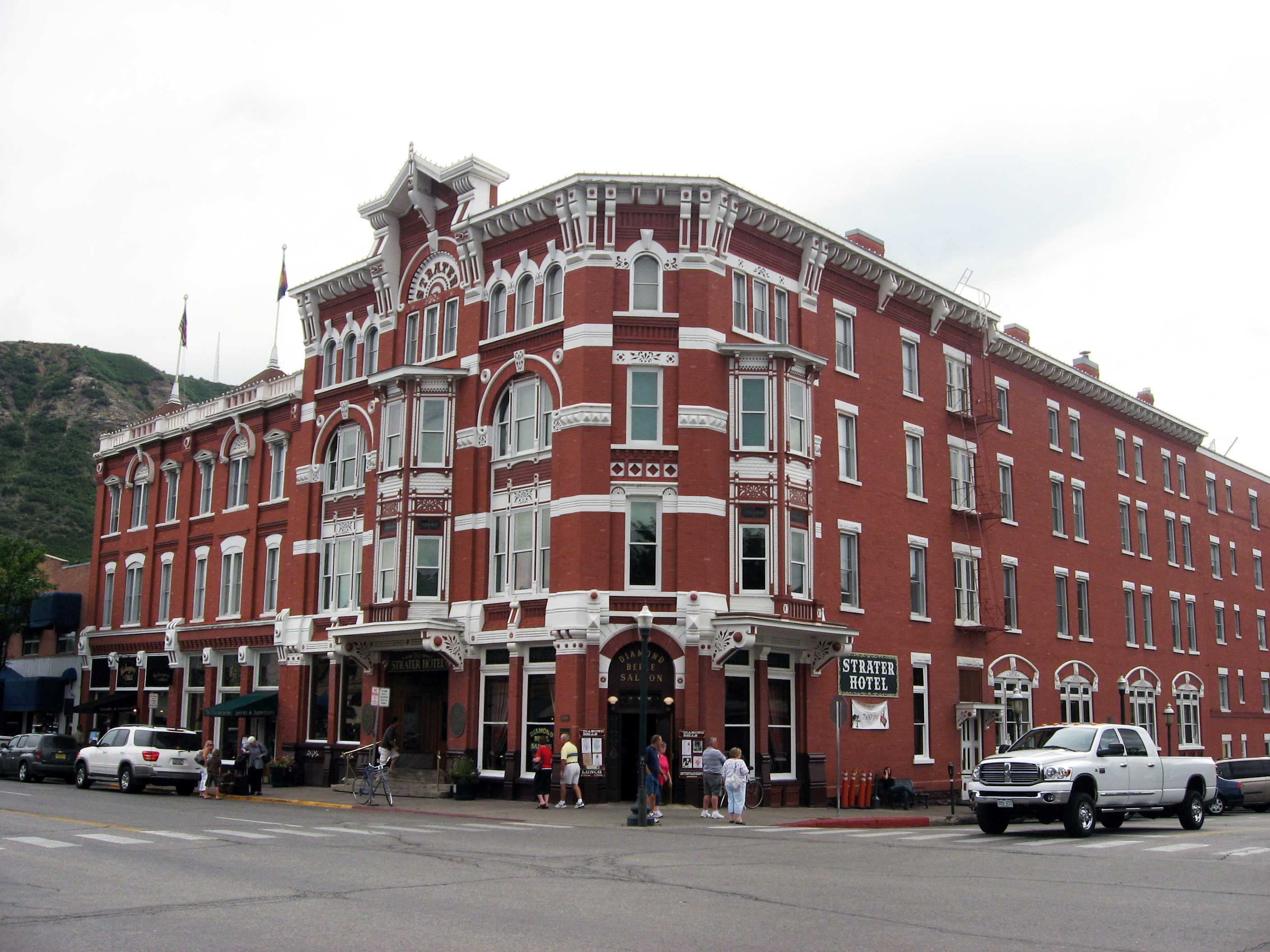 The Strater Hotel, built by Henry Strater in 1887, Durango, Colorado.